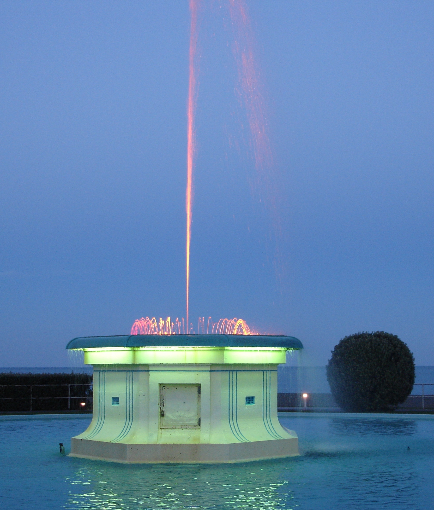 Napier's water fountain at dusk. The Pacific Ocean is in the background.